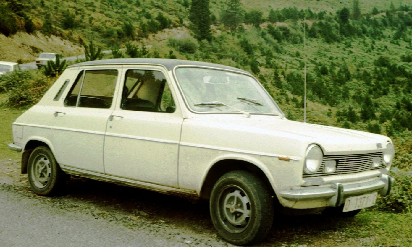 Simca 1200 5 doors in northern Spain